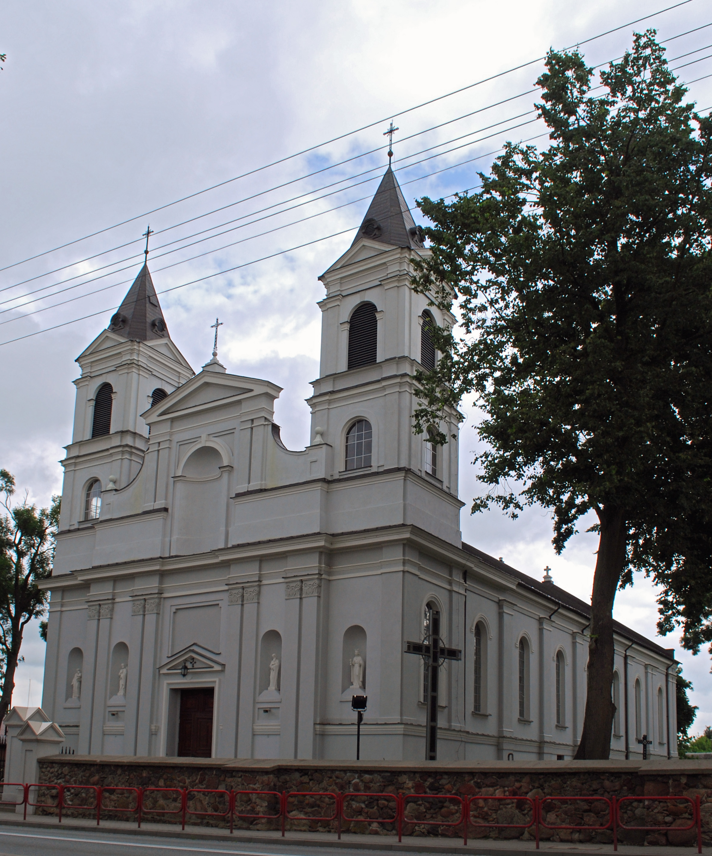 This photo from Podlaskie Voievodeship was taken during Polish Wikiexpedition 2009 set up by Wikimedia Polska Association. The making of this document was supported by Wikimedia Polska. Kościół w Suchowoli.